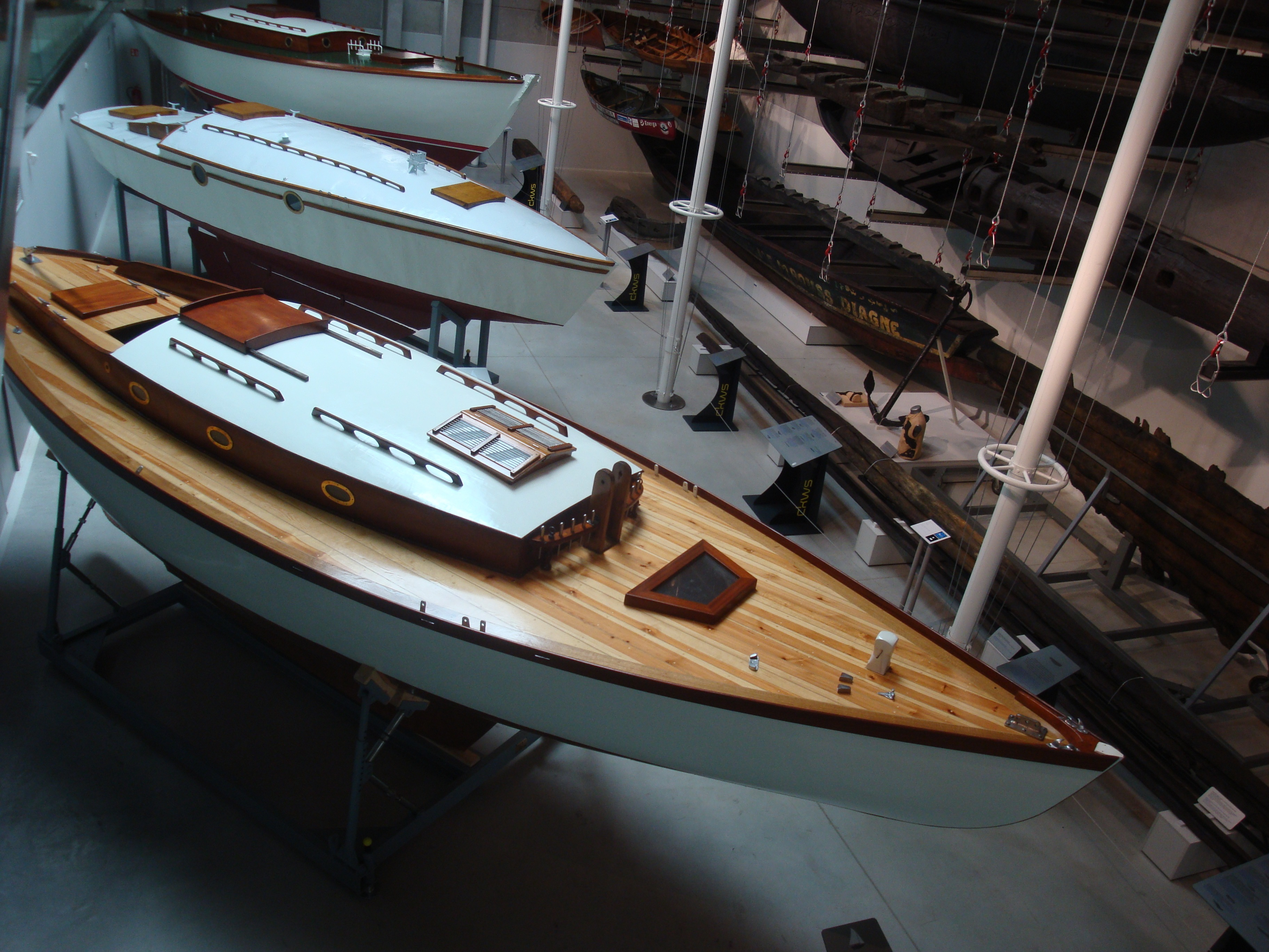 Boats exhibited in Shipwreck Conservation Centre in Tczew (Centrum Konserwacji Wraków Statków). Shipwreck Conservation Centre in Tczew is branch of National Maritime Museum in Gdańsk, Poland.